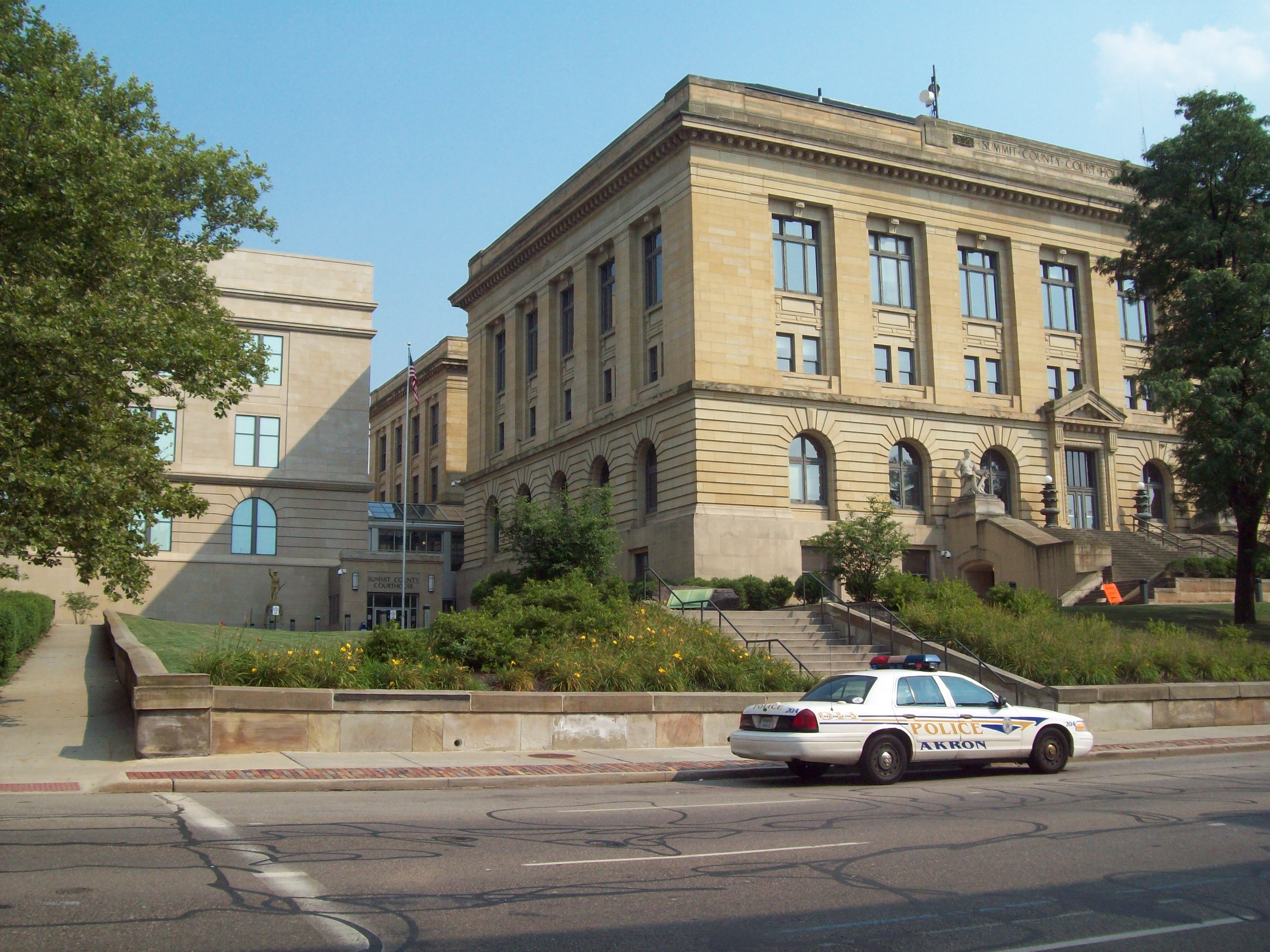 Summit County Courthouse